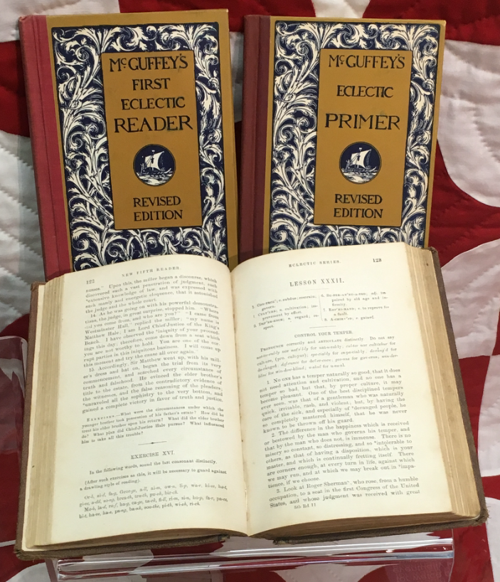 Set of Henry Ford's McGuffey's Eclectic Readers from the Edison Ford Winter Estates museum